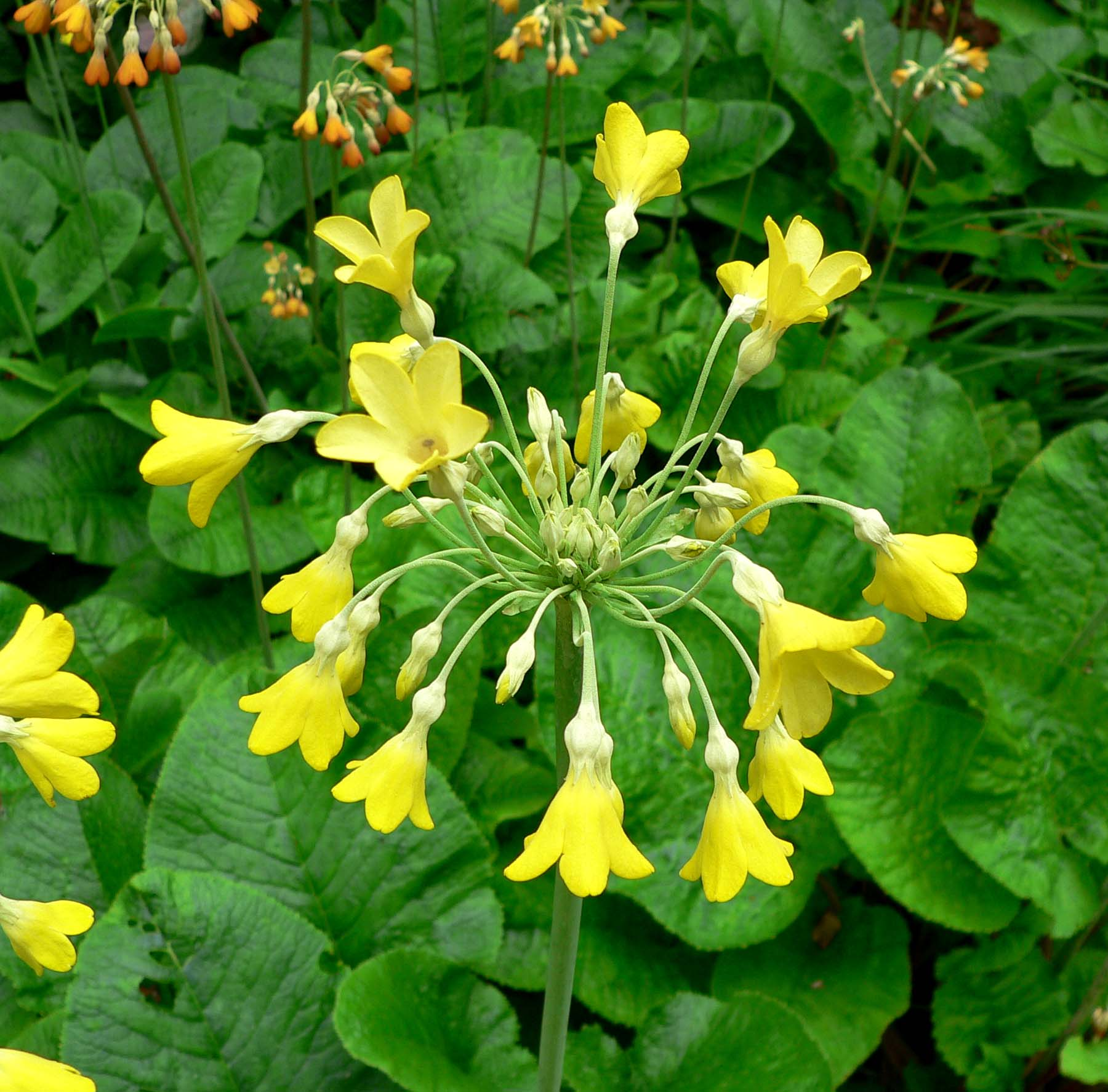 Photo of Primula florindae at the UBC Botanical Garden in Vancouver